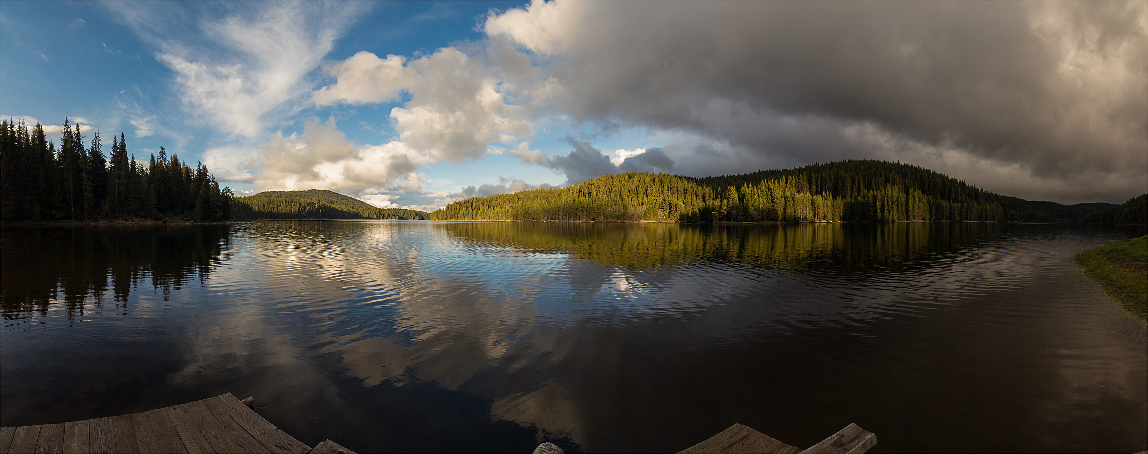 Golyam Beglik